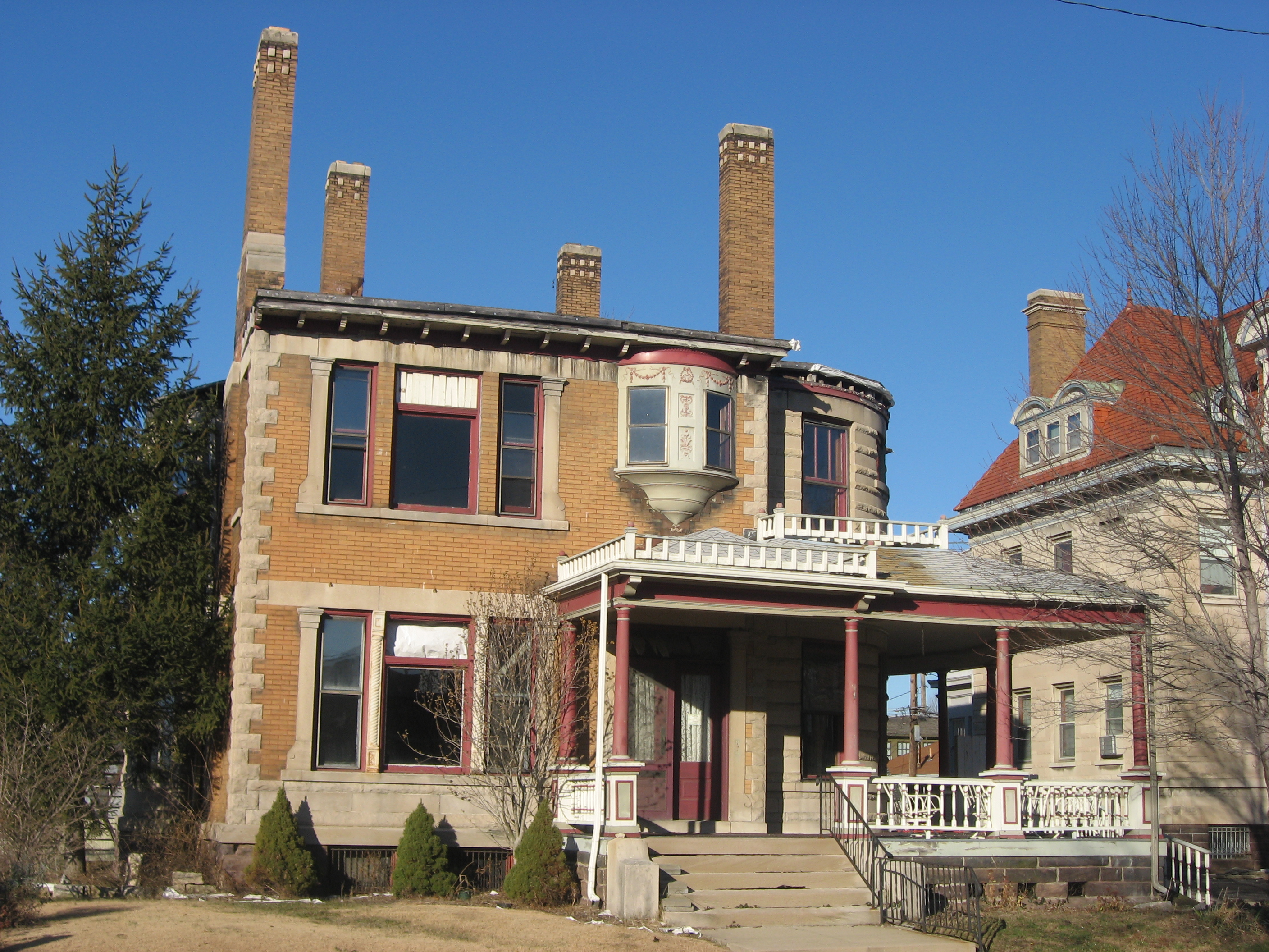 Front and western side of the J.C. Johnson House, located at 322 E. Washington Street in Muncie, Indiana, United States. Built in 1897, it is listed on the National Register of Historic Places, and it is part of a Register-listed historic district, the Goldsmith C. Gilbert Historic District.